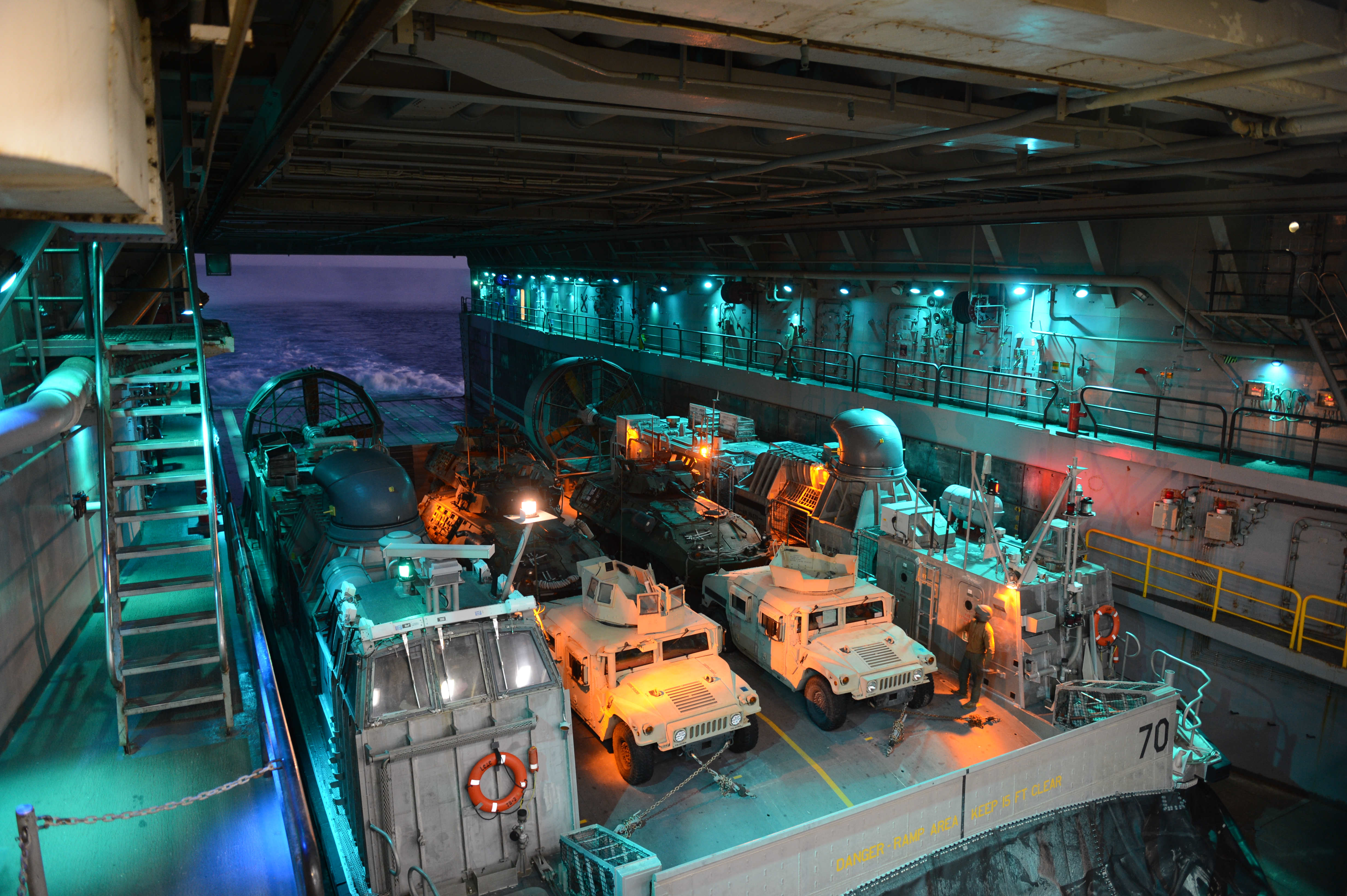 A U.S. Navy landing craft, air cushion prepares to depart the well deck of the amphibious transport dock ship USS Mesa Verde (LPD 19) in the Atlantic Ocean Dec. 13, 2013. Sailors assigned to the Mesa Verde and Marines with the 22nd Marine Expeditionary Unit participated in a composite training unit exercise in preparation for a deployment.